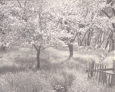 Apple trees in blossom